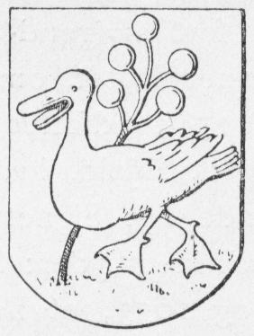 Coat of arms of Anst Herred (Hundred), a former administrative subdivision of Denmark, 1584 version. Illustration from the article Om danske By- og Herredsvaaben written by Anders Thiset and published in Tidsskrift for Kunstindustri 1893-1894.